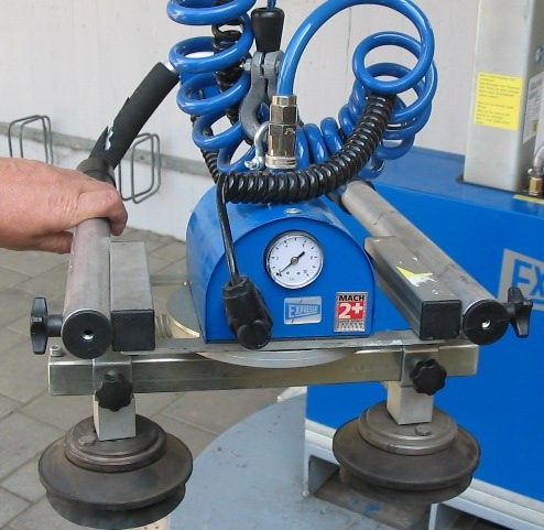 vakuum lifting tool